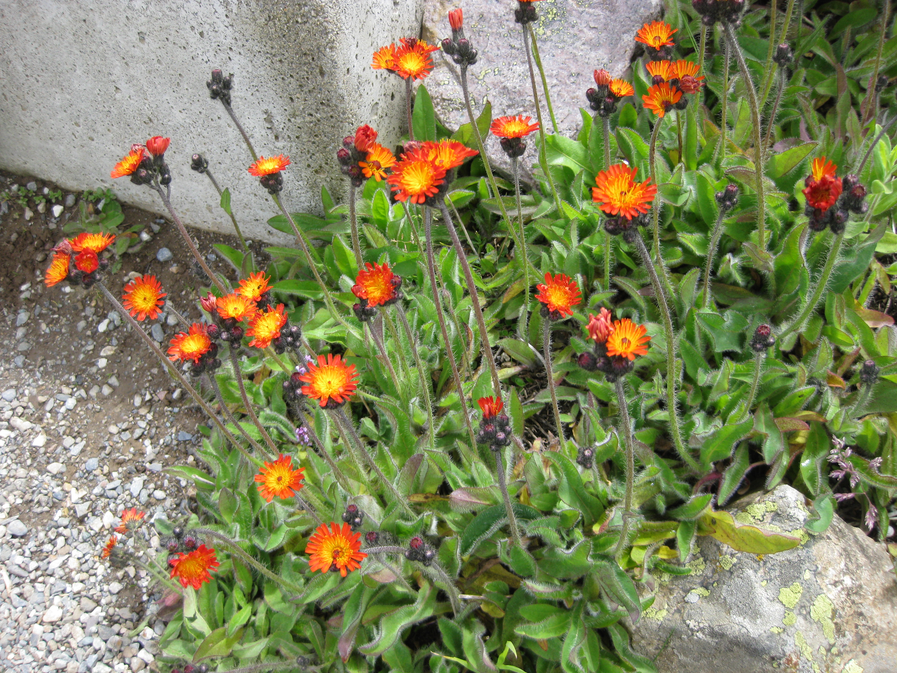 Hieracium aurantiacum in the Jardin Botanique Alpin du Lautaret